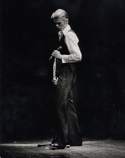 David Bowie at the O'Keefe Centre, Toronto, Ontario Canada on 28 February 1976.